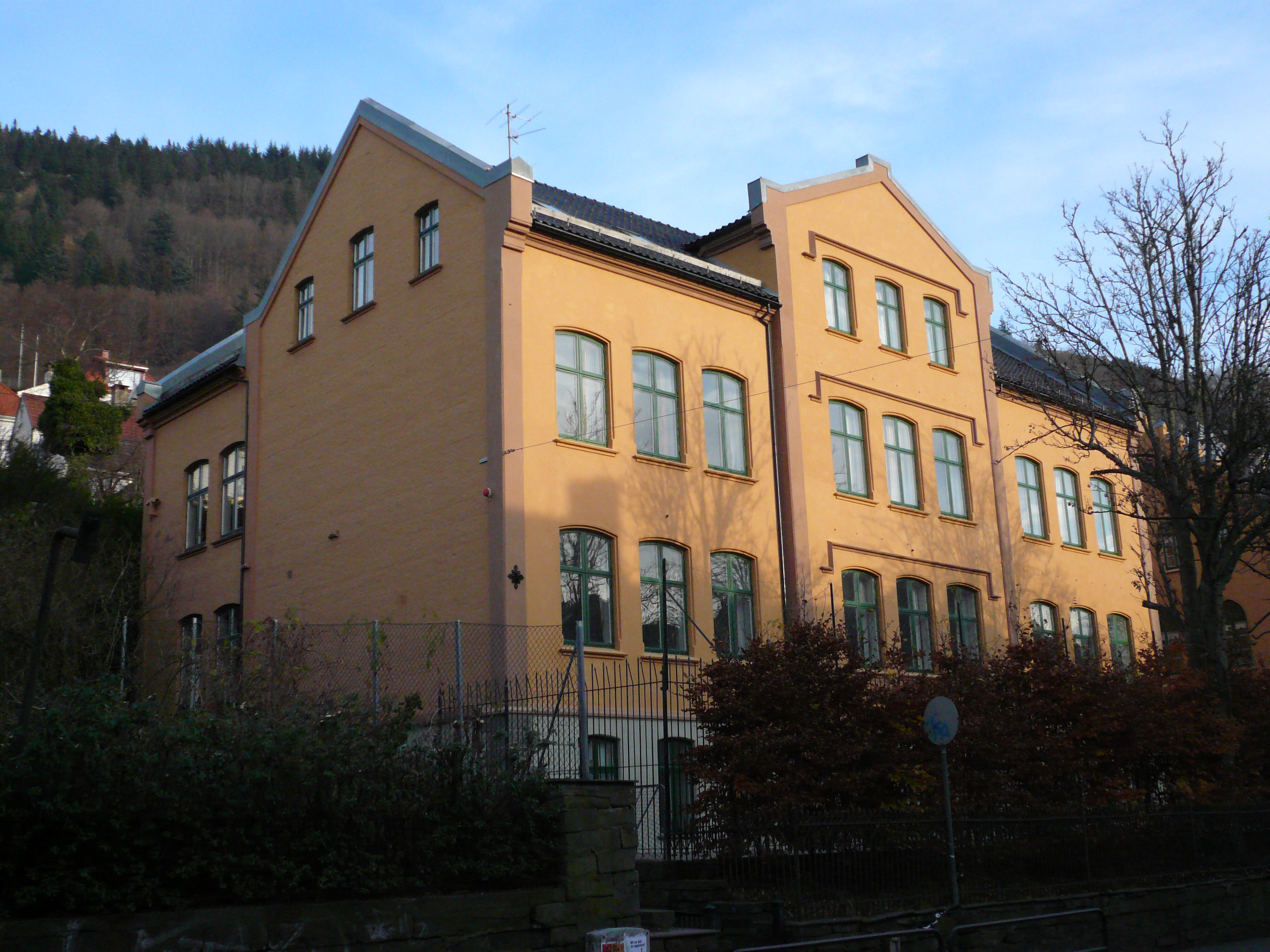 Christi Krybbe skoler (1874), Bergen, Norway